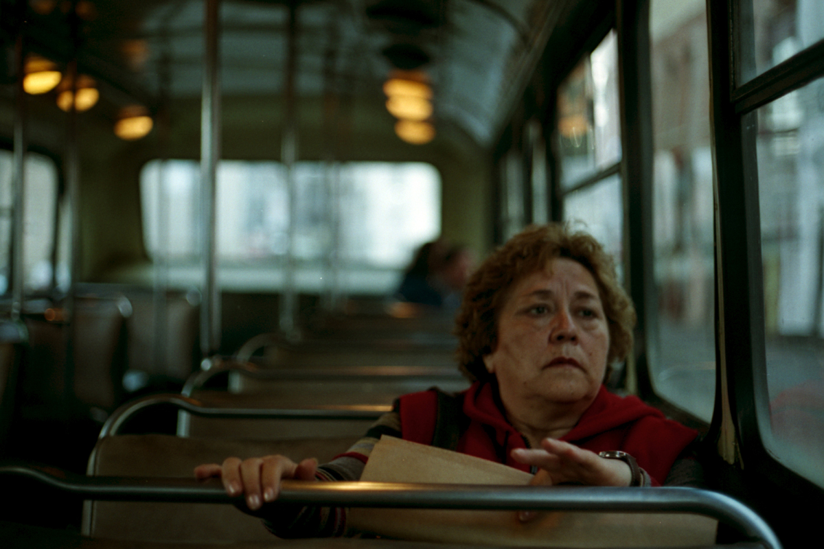 This is a photo of a national monument in Chile: 2010